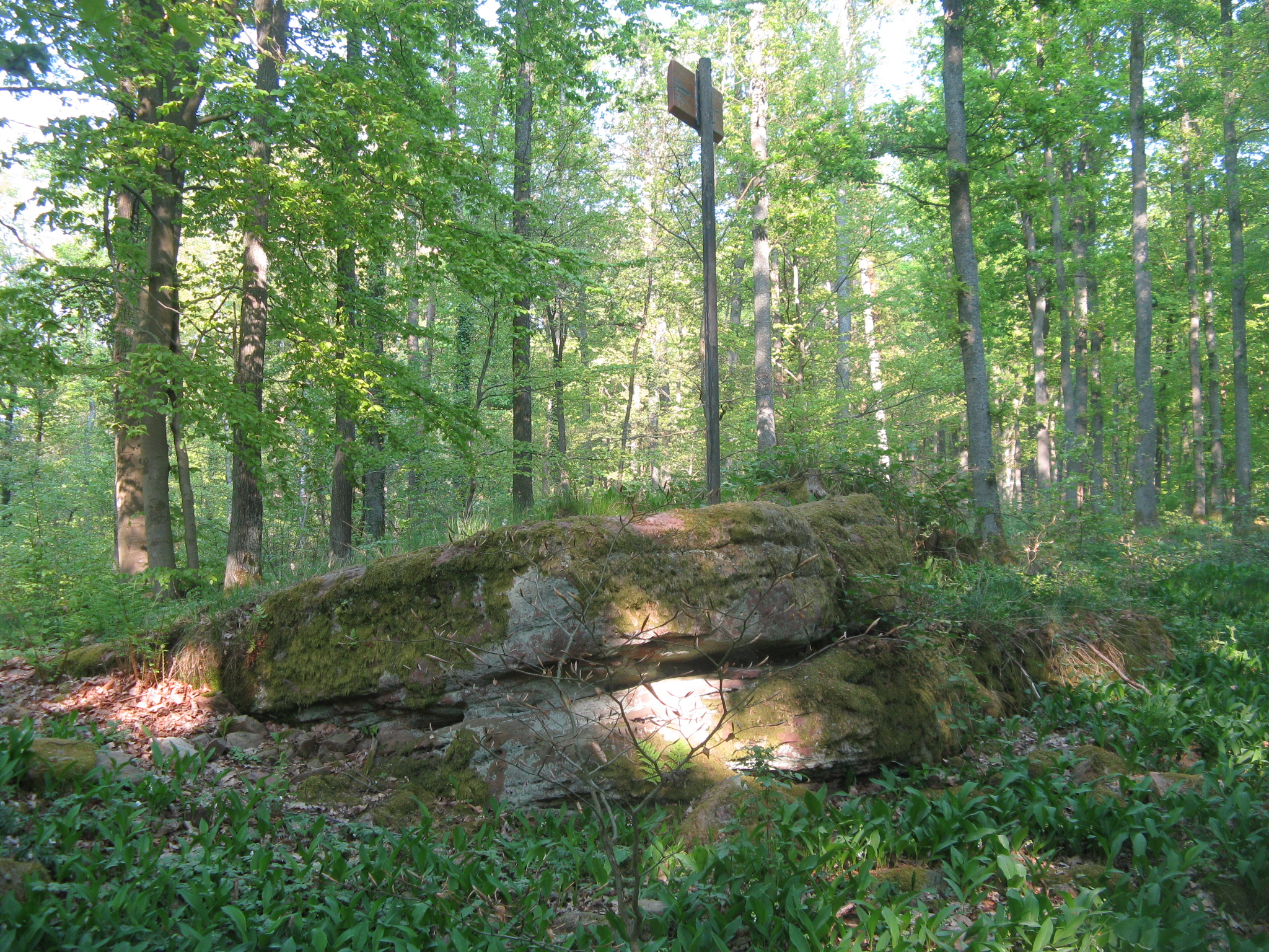 Slorburg Castle (remnants), Gemünden am Main / Germany